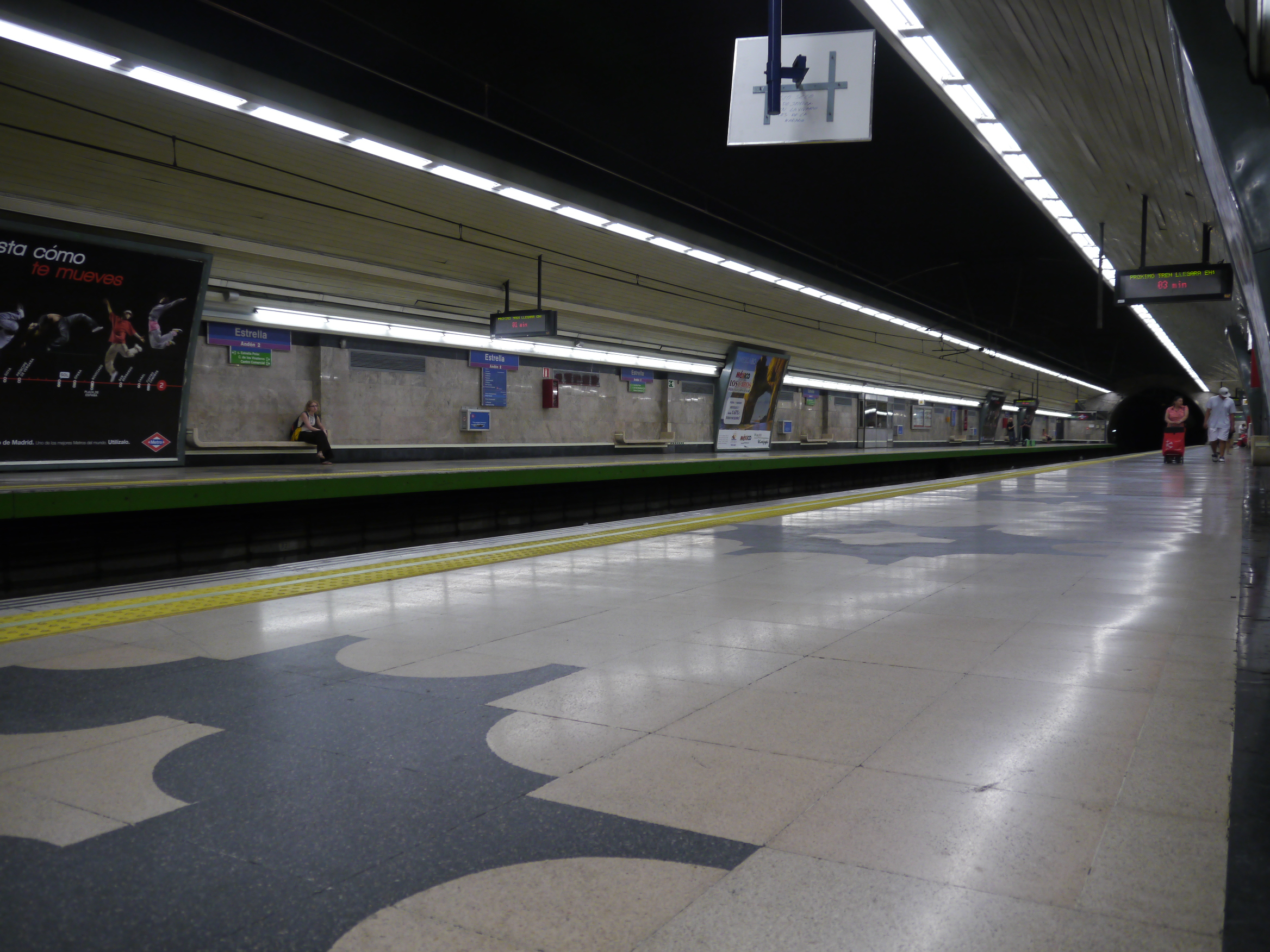 Estrella station in the Madrid Metro.